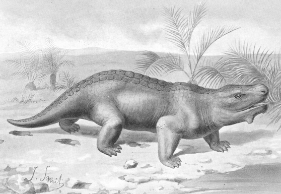 Pareiasaurus by Joseph Smit (1836-1929) from Nebula to Man 1905 England